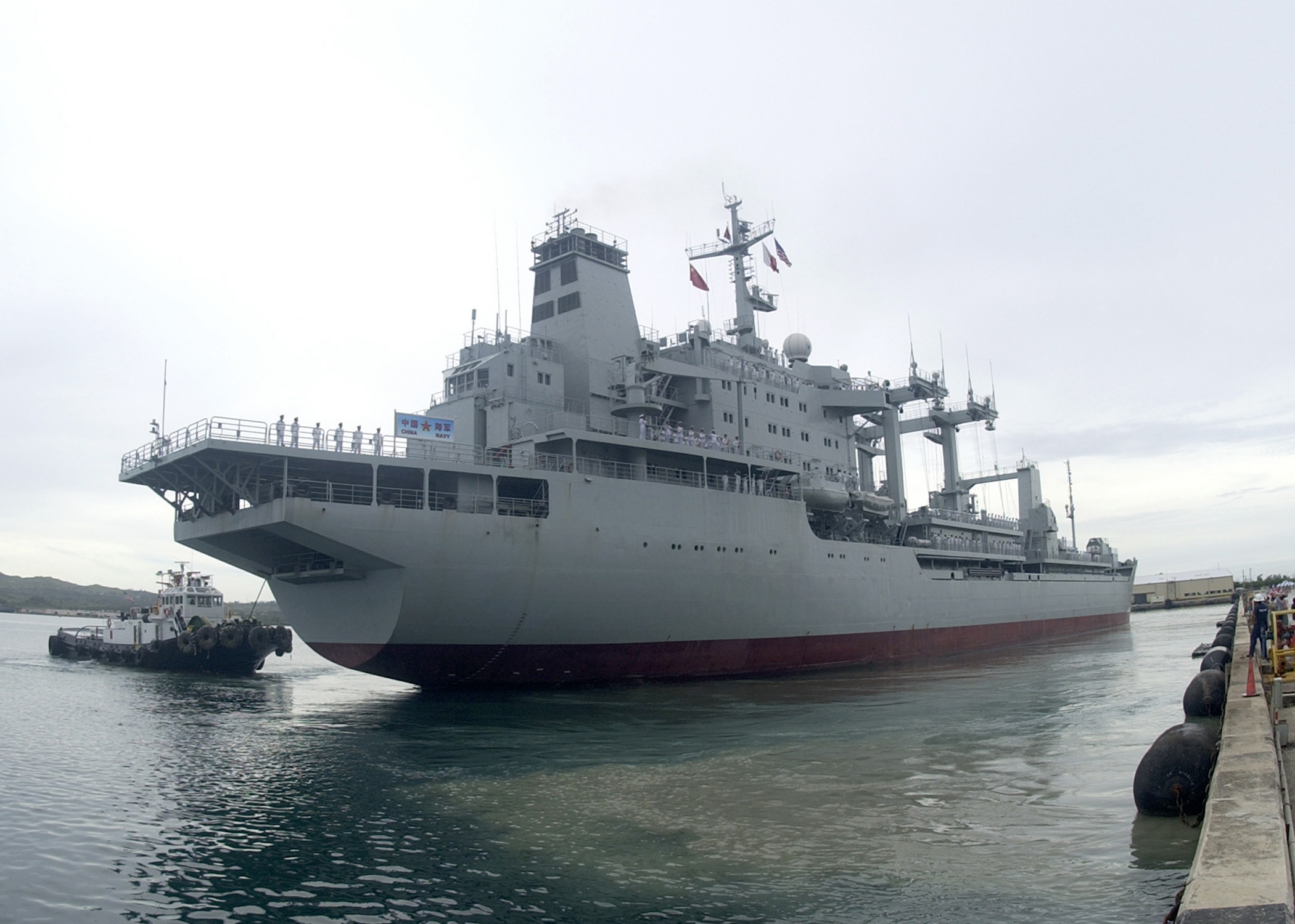 Santa Rita, Guam (Oct. 25, 2003) -- The People's Liberation Army Navy (PLAN) oiler Qinghai Hu (AO 885) gets underway from Apra Harbor, Guam. Qinghai Hu and guided missile destroyer Shenzhen (DDG 167) made the People's Republic of China first-ever naval port call to Guam. U.S. Navy photo by Photographer's Mate 2nd Class Nathanael T. Miller. (RELEASED)